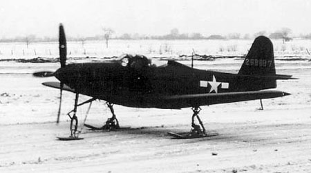 Bell P-63A on skis